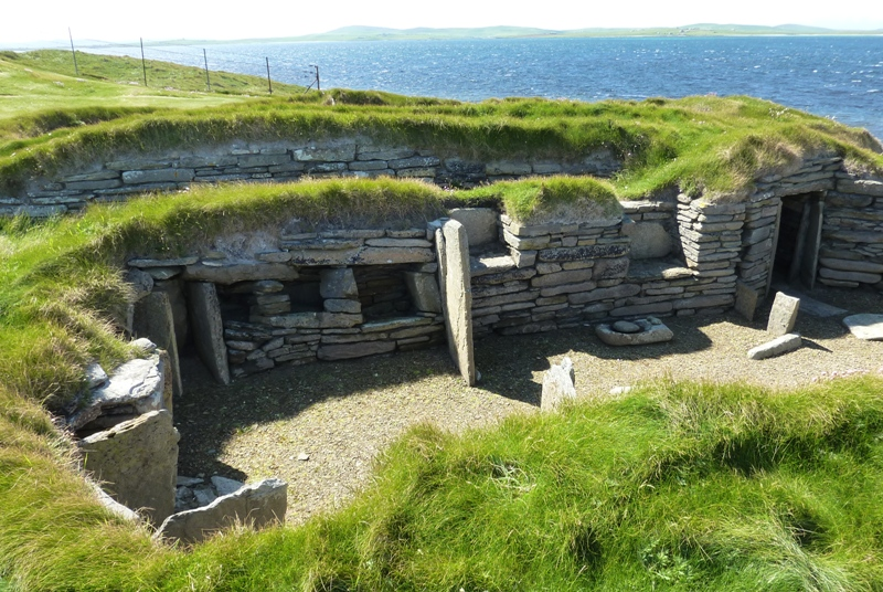 Knap of Howar, Papa Westray, Orkney, Scotland. House 2 seen from north.